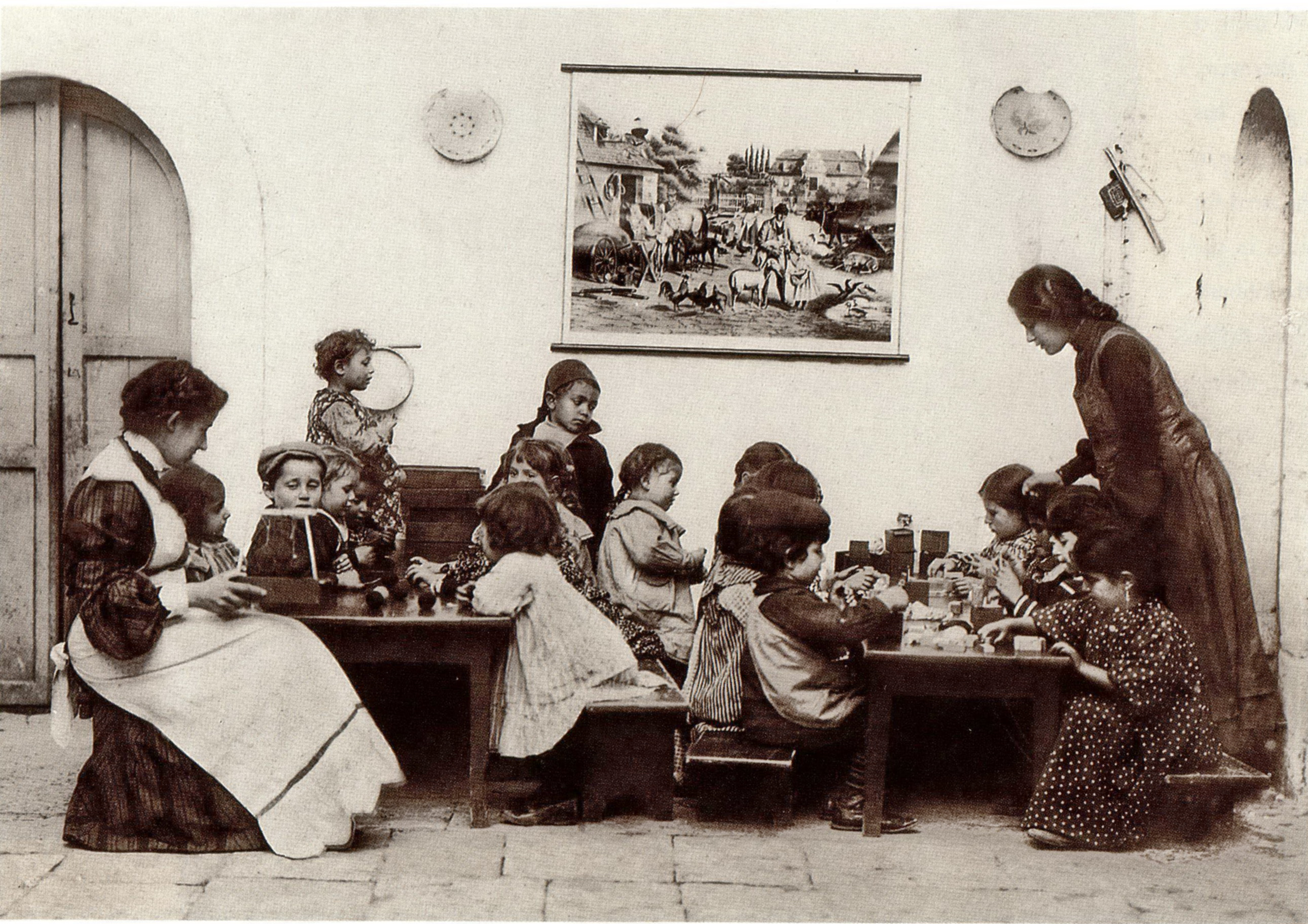 Kindergarten in Jerusalem in 1907